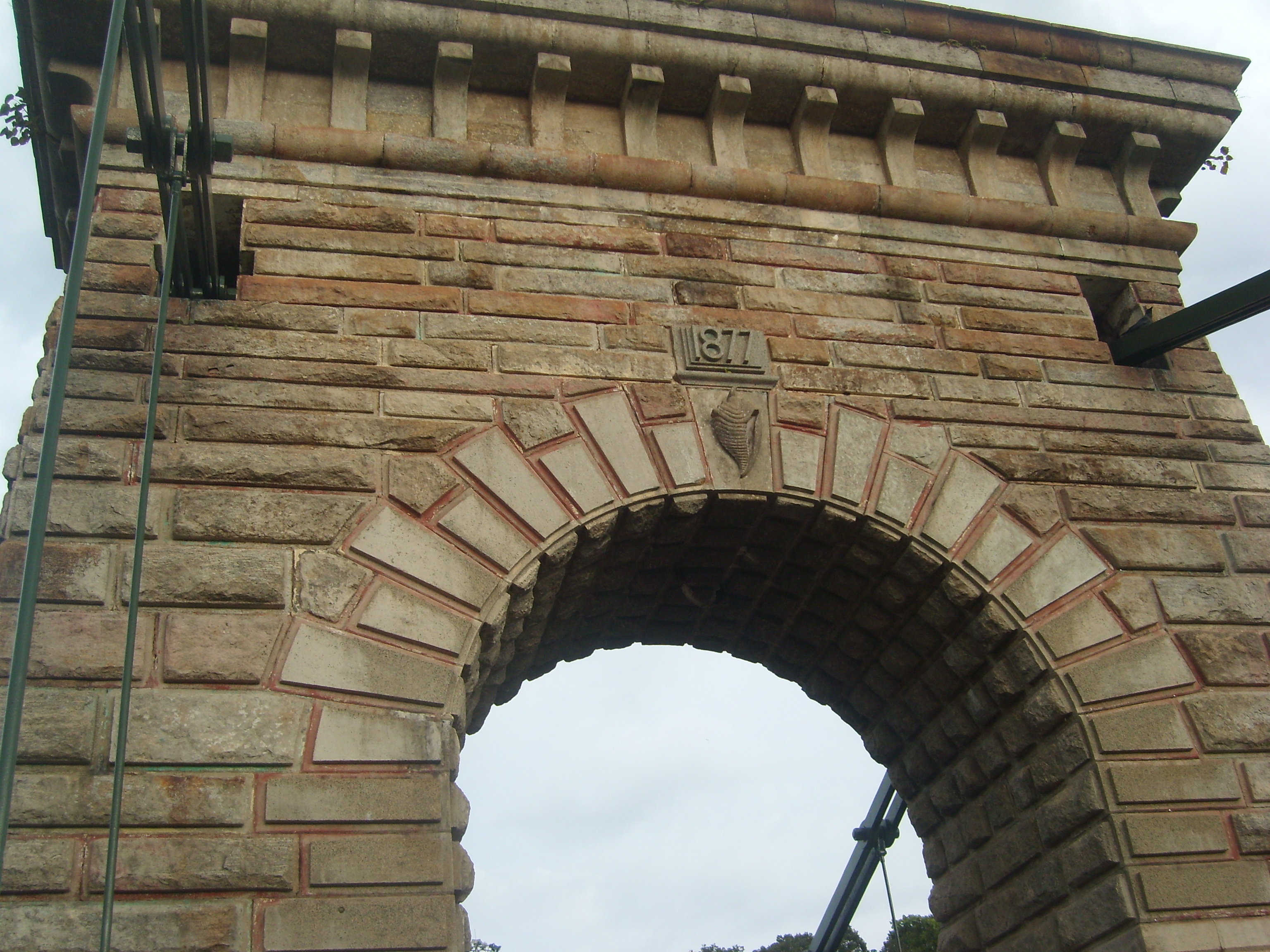 Picture of Punalur Suspension Bridge